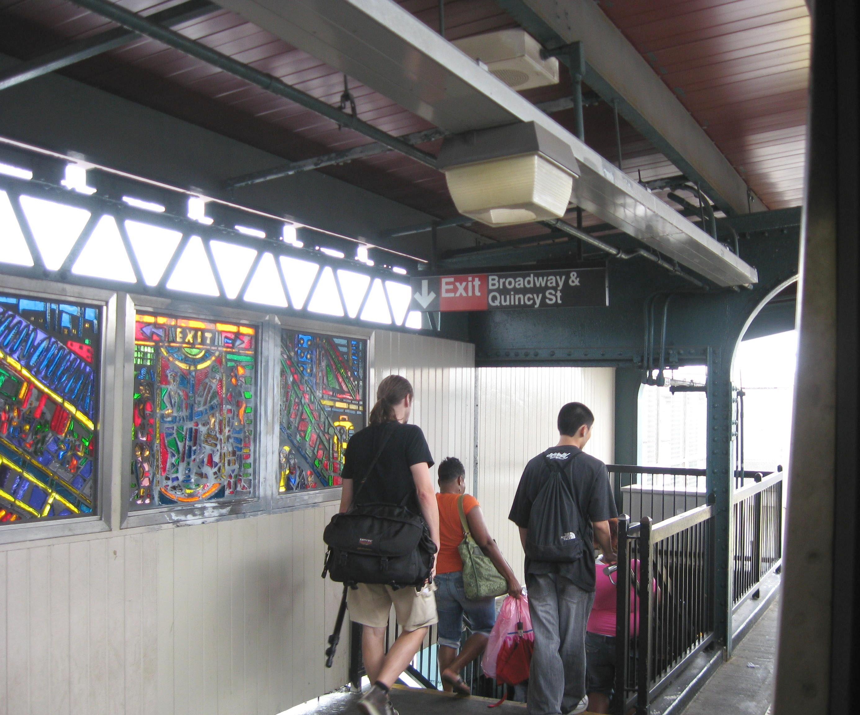 Looking west on western part of northbound platform of Gates Avenue (BMT Jamaica Line) on a rainy midday.